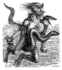 The Twenty-third Sprit is Aim. He is a Great Strong Duke. He appeareth in the form of a very handsome Man in body, but with three Heads; the first, like a Serpent, the second like a Man having two Stars on his Forehead, the third life a Calf. He rideth on a Viper, carrying a Firebrand in his Hand, wherewith he setteth cities, castles, and great Places, on fire. He maketh thee witty in all manner of ways, and giveth true answers unto private matters. He governeth 26 Legions of Inferior Spirits